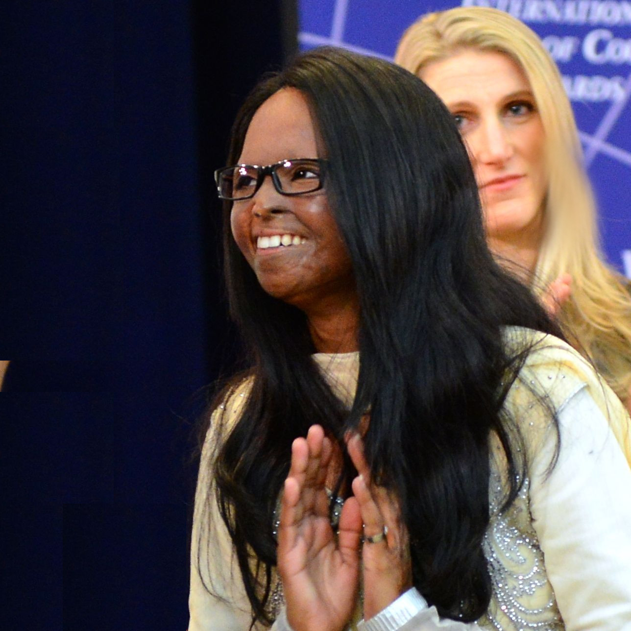 Laxmi Agarwal with "Deputy Secretary Higginbottom and First Lady Michelle Obama recognized extraordinary women from around the globe with the Secretary of State’s International Women of Courage Award at a ceremony that took place on Tuesday, March 4, 2014, 11:30 a.m. at the Department of State."